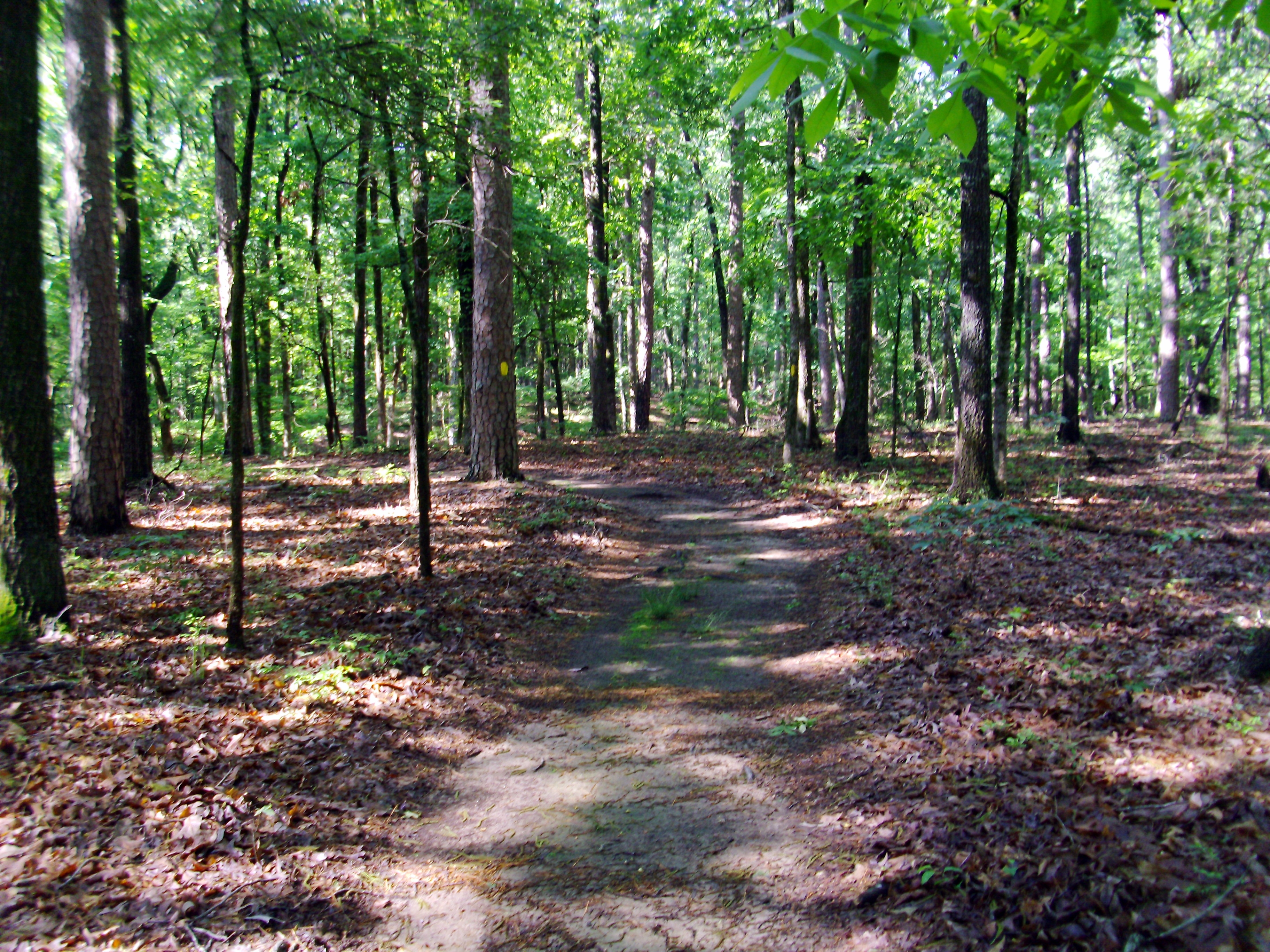 Hiking trail